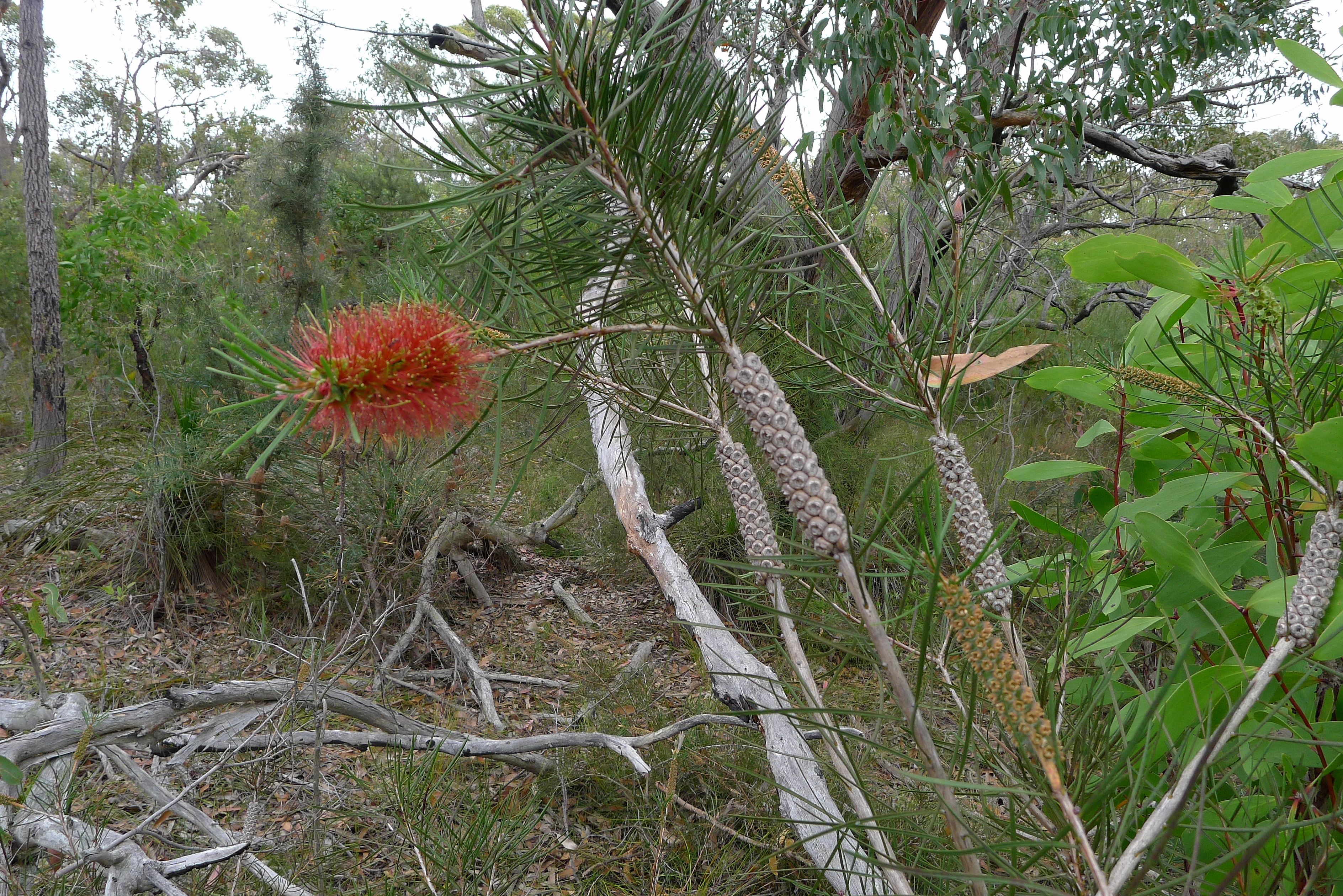 Narrow-leaved Bottlebrush, Callistemon linearis. Royal National Park, NSW Australia, November 2012.